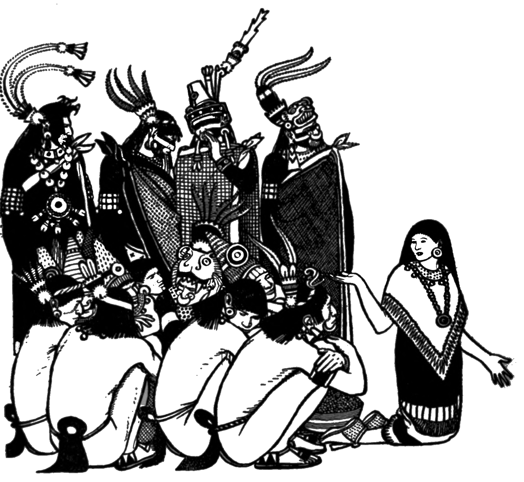 A Homily by Father Olmedo